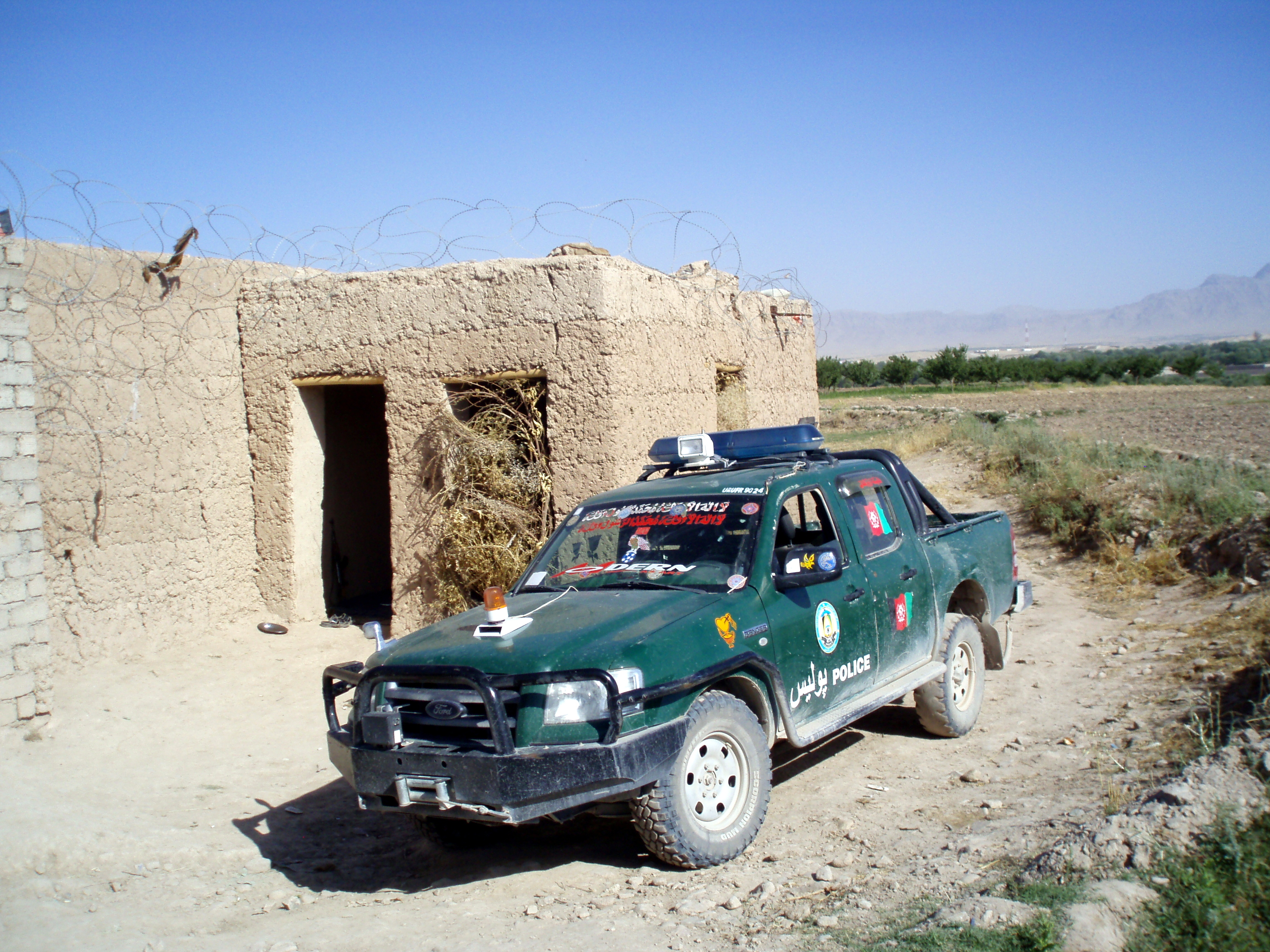 ANP check point near Tarin Kowt